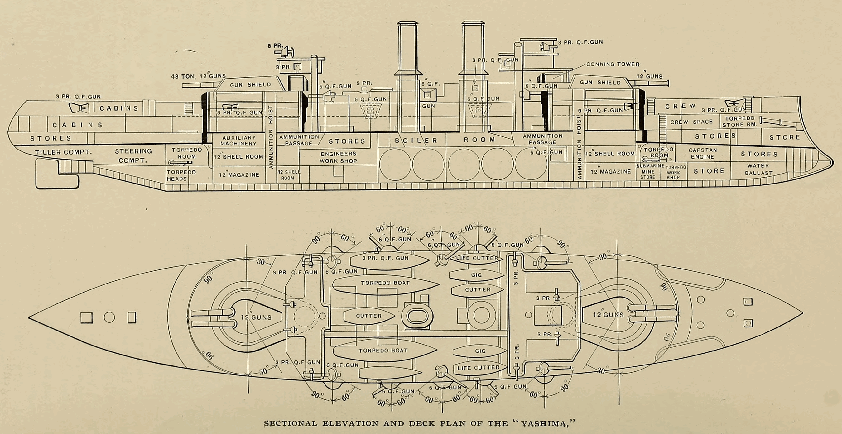 Cassier's Magazine of February 1898 had an article on page 275-292, written by Eustace Tennyson d'Eyncourt and titled The Japanese Battleship Yashima. It was accompanied by a number of illustrations, including this plan of the vessel, on page 276.